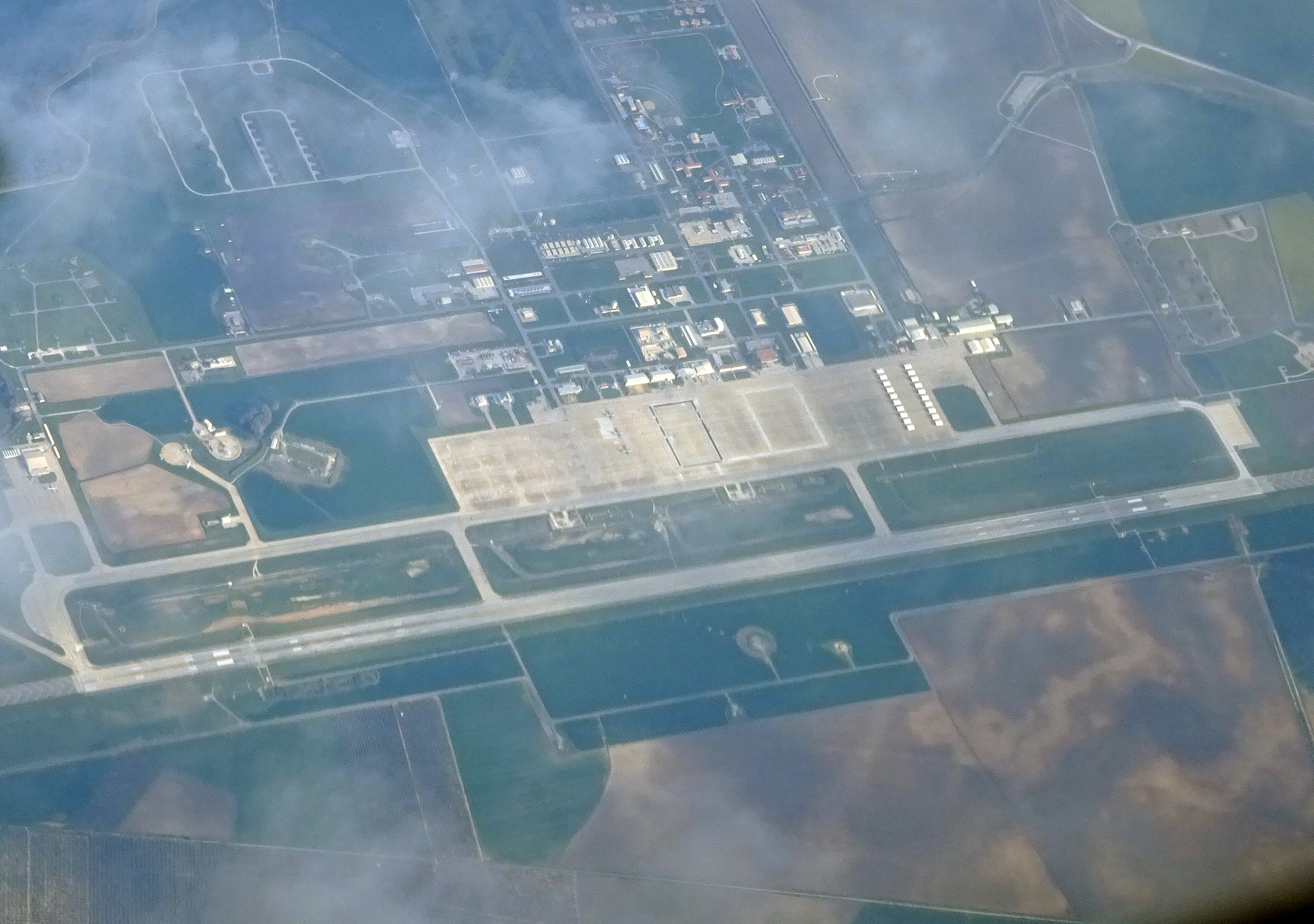 FROM FLIGHT CMN-ORY 737 ROYAL AIR MAROC CN-RGN